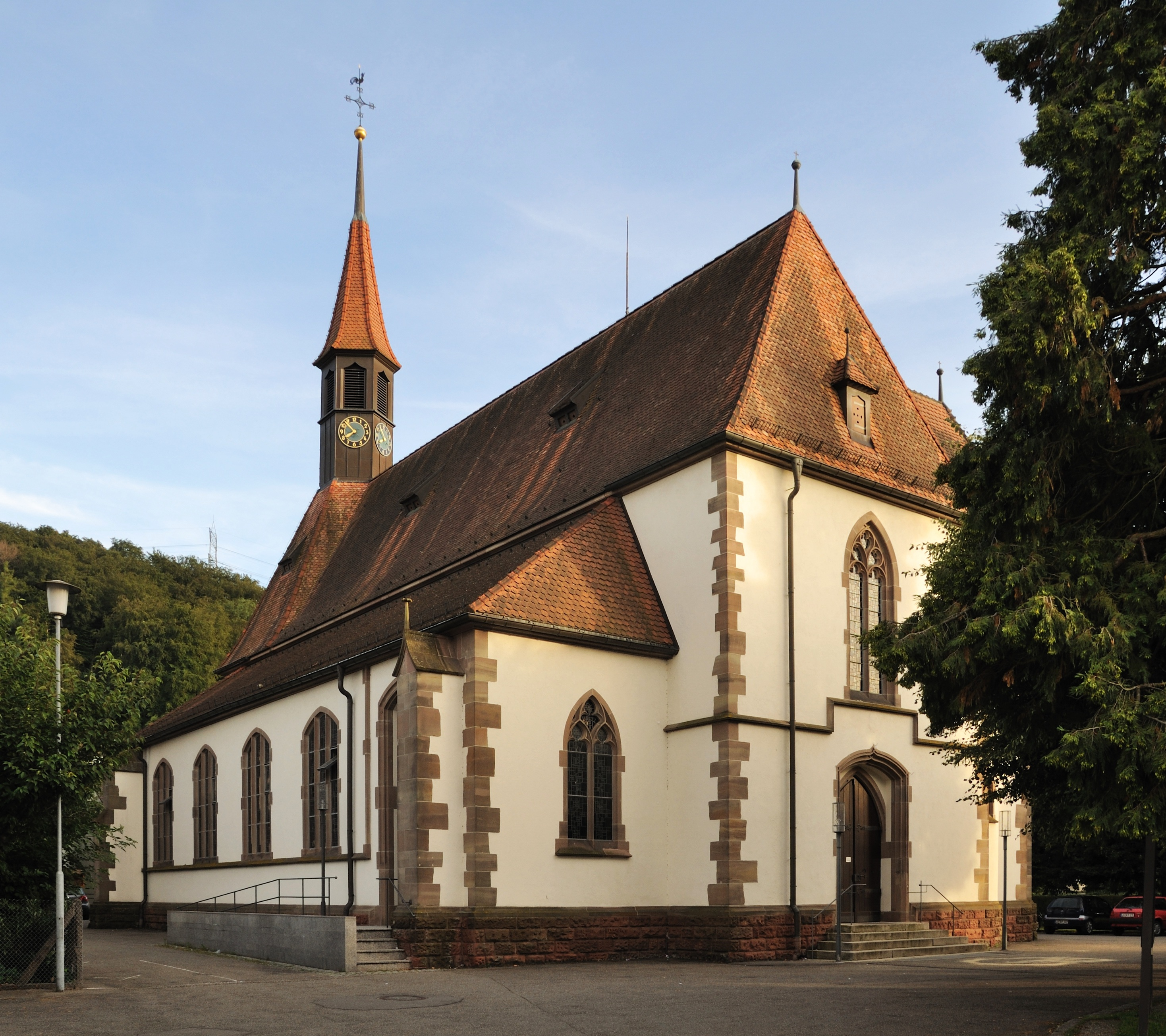 Lörrach:Brombach: Saint Josephs Church